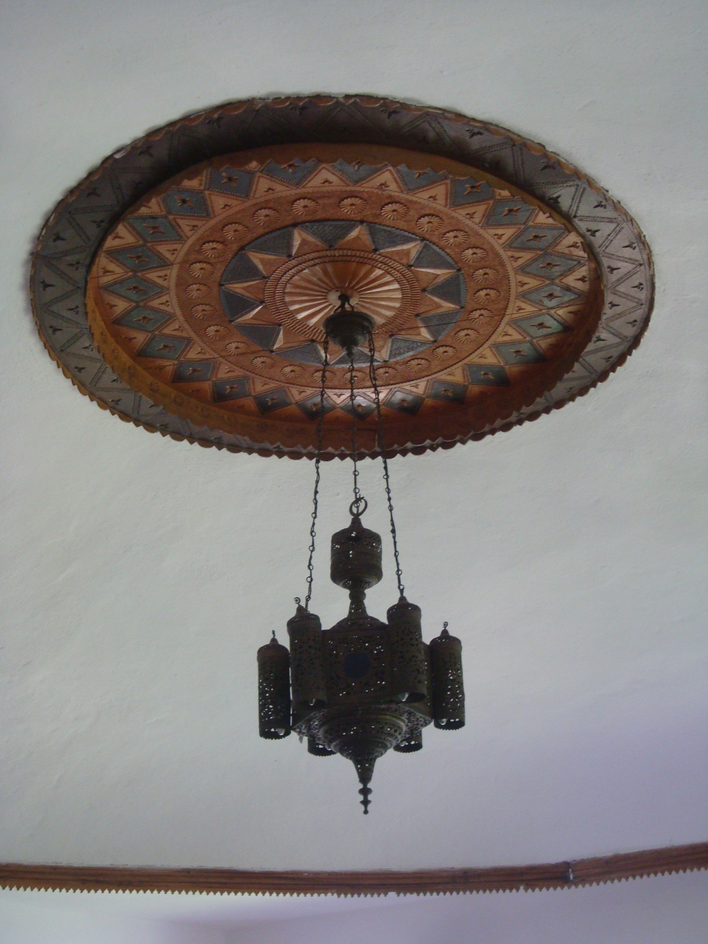 In the Bosniak house